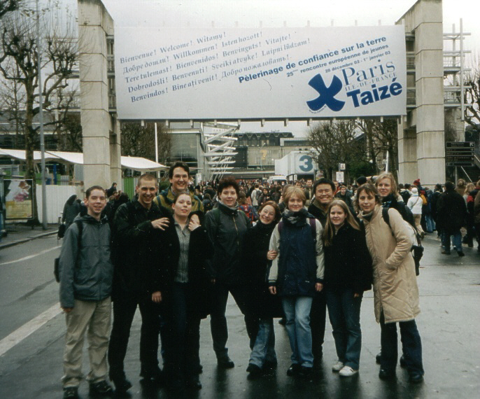 Eine Gruppe Jugendlicher beim Silvestertreffen in Paris 2002/2003